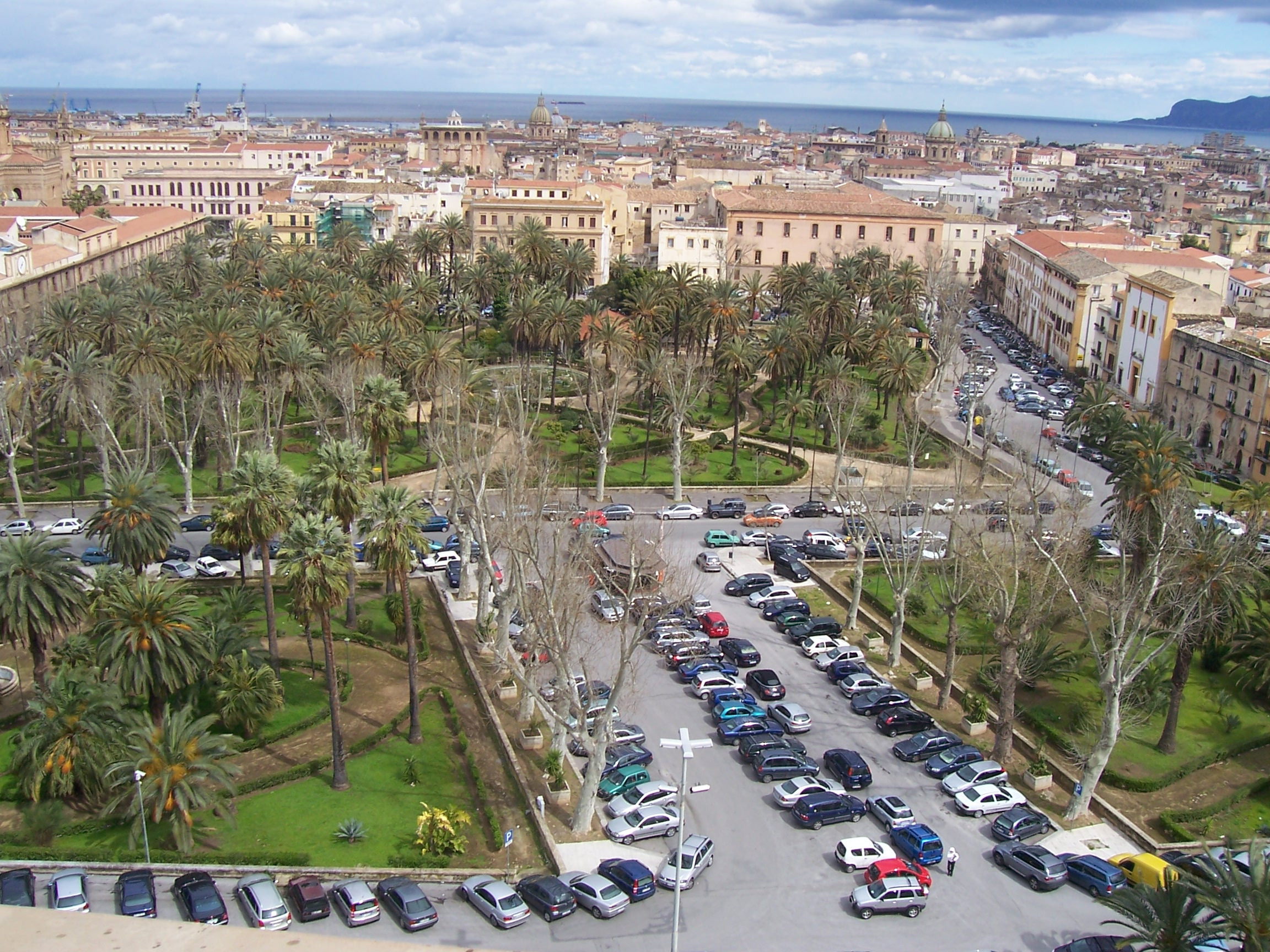 Piazza del Parlamento e Piazza Vittoria con villa Bonanno, view from Palazzo dei Normanni, Palermo